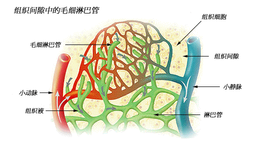 Lymph capillaries in the tissue spaces